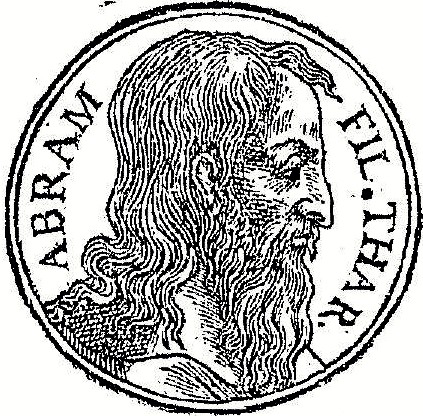 Abram (Abraham)